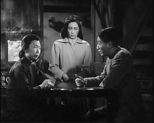 From right: Hui Shi, Zhu Jiachen and another actor in the film Ai le zhongnian